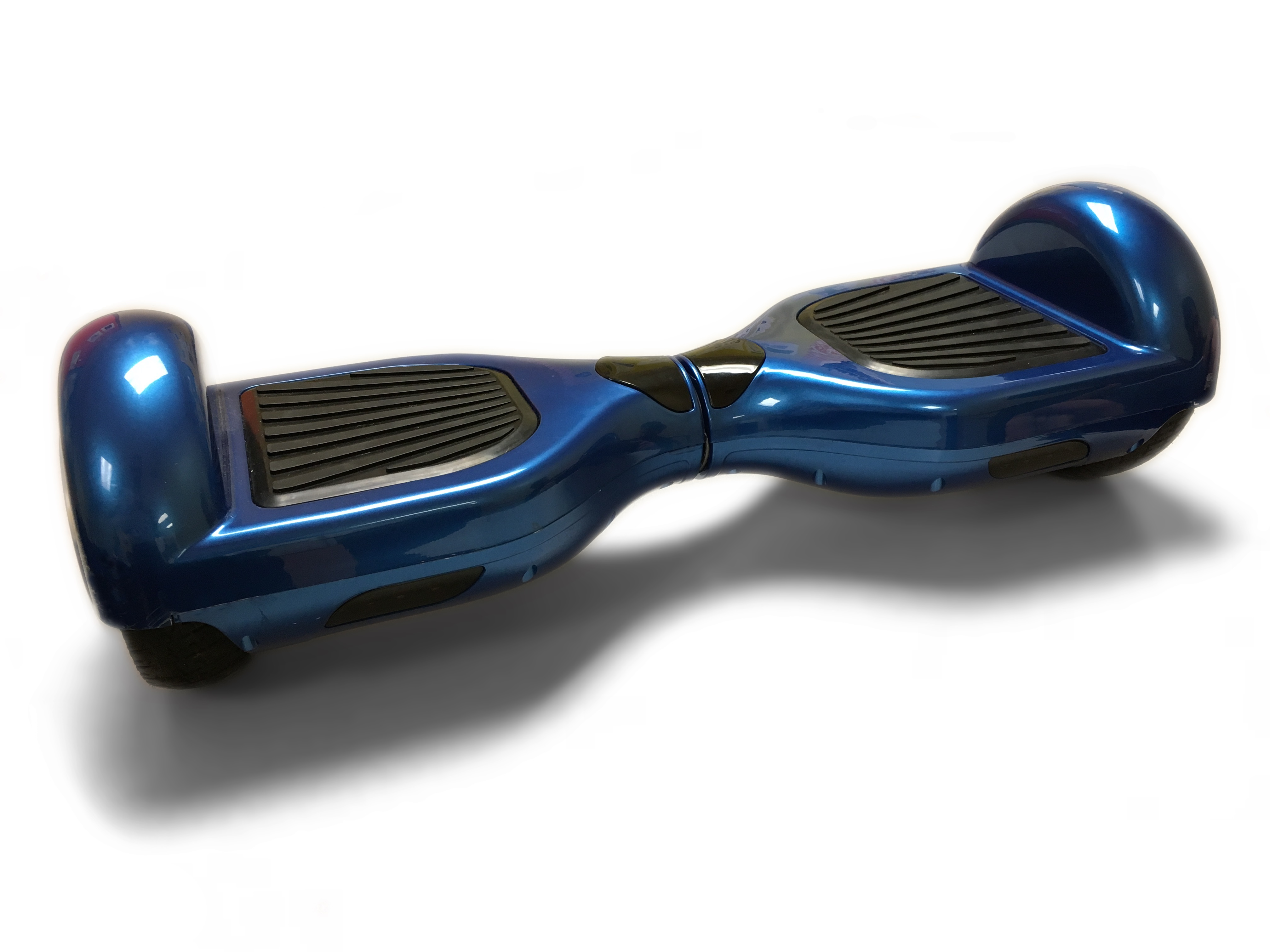 Hoverboard Scooter LBS15 - The "Little Scooter"